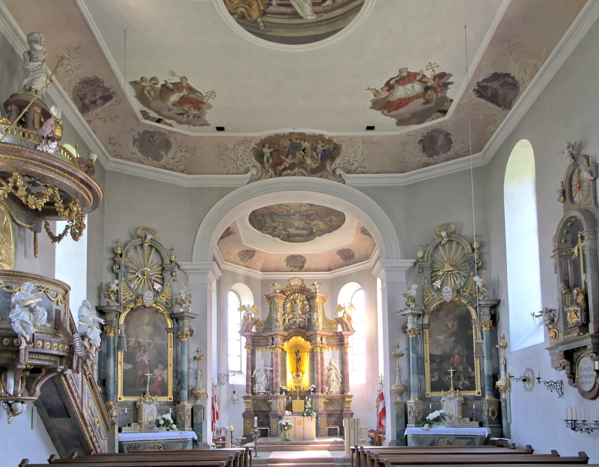 Village "Saal an der Saale", church of pilgrimage